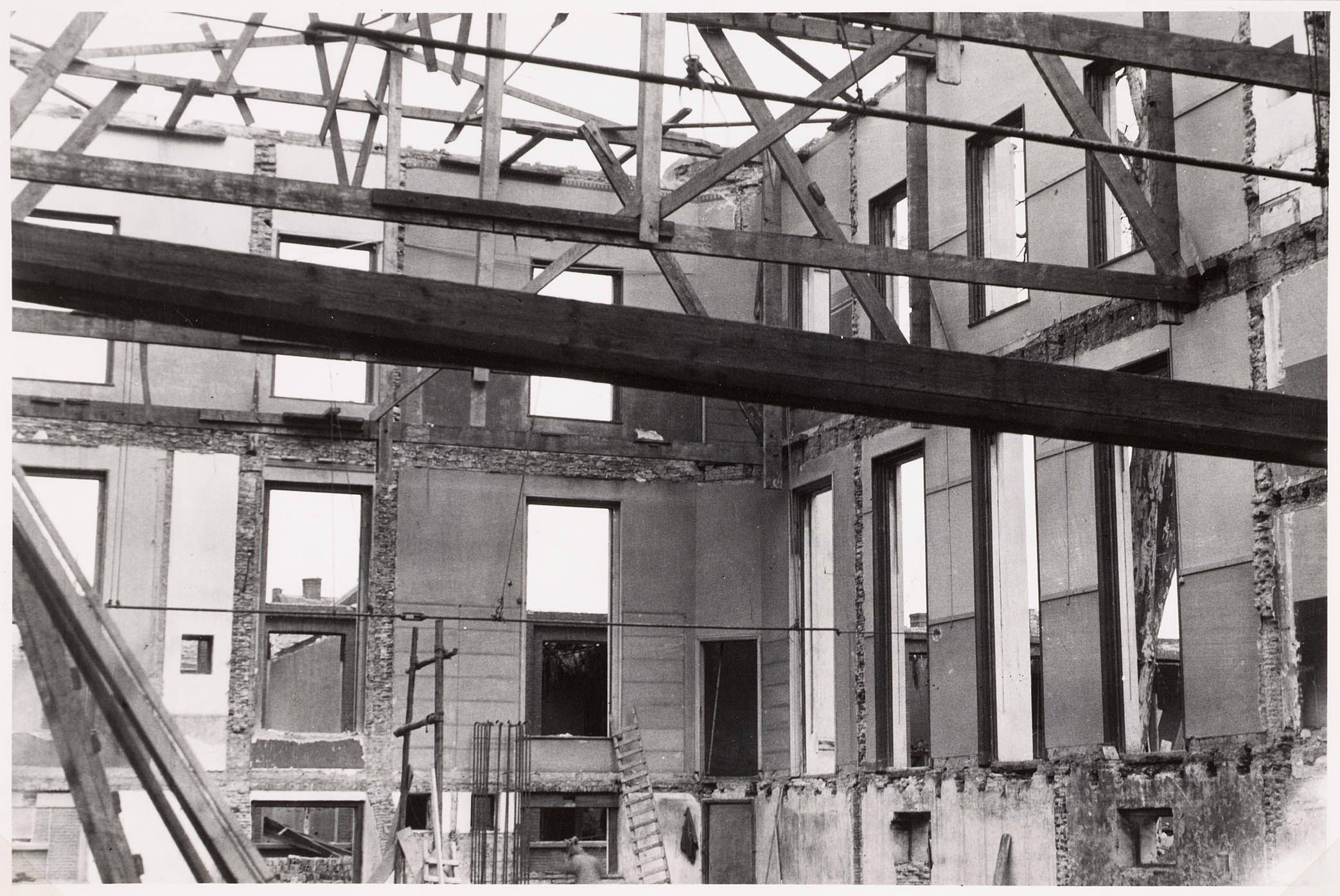 Reconstruction of the Rijks-HBS in Tilburg into the Palace-Council House.